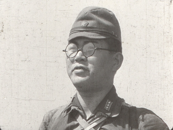 Captain Michio Okuyama (Commander of Giretsu Kuteitai). From newsreel.